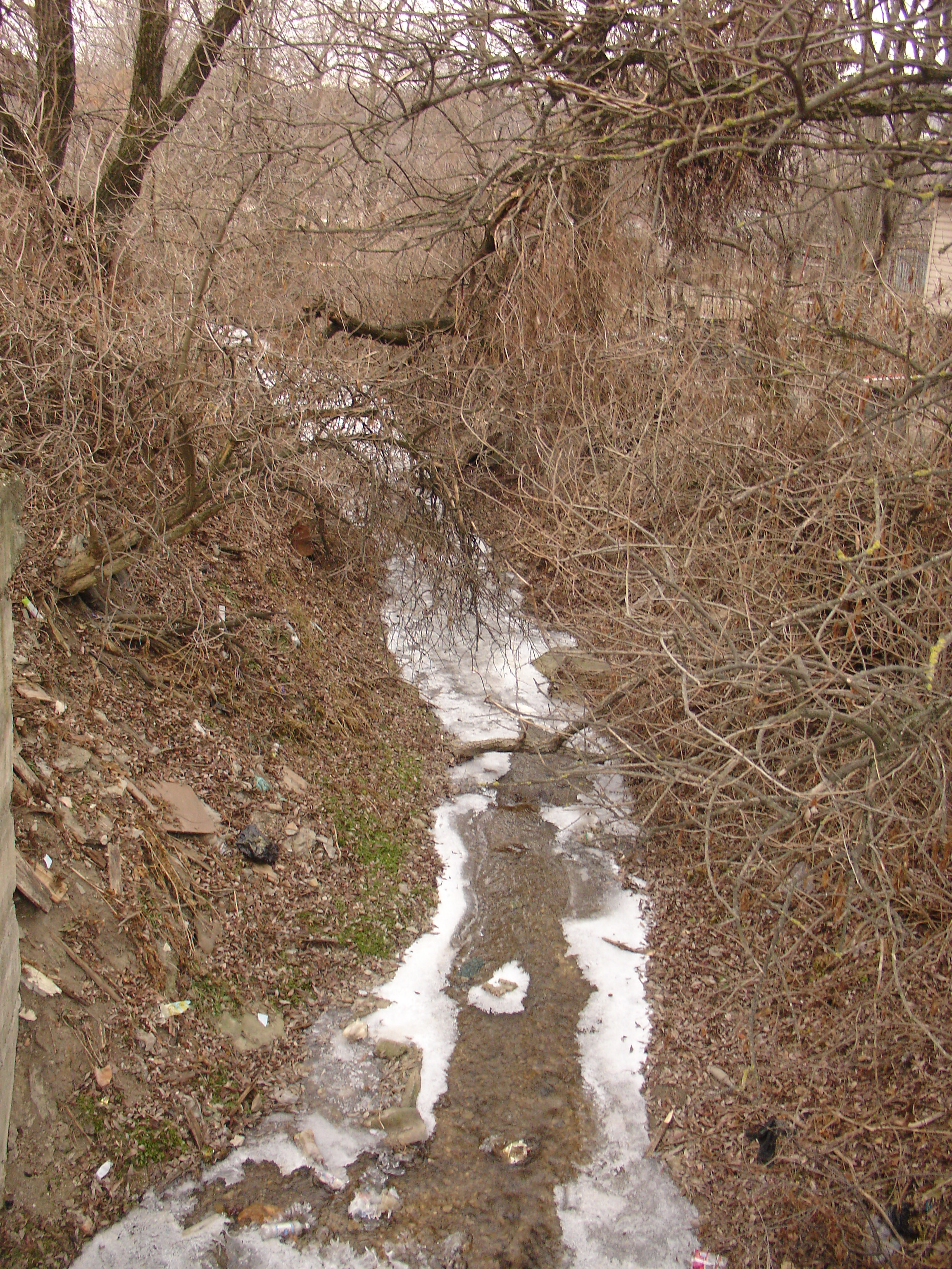 Bolshoy Essentochok River in winter from the bridge. Bely Ugol, Yessentuki, Stavropol Krai, Russia.